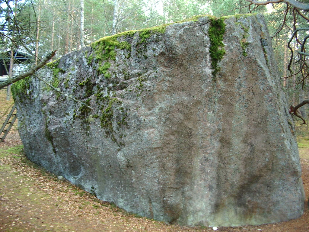 Augu suurkivi near Haapse village in Harju County. Perimeter 27 m, height 7 m.